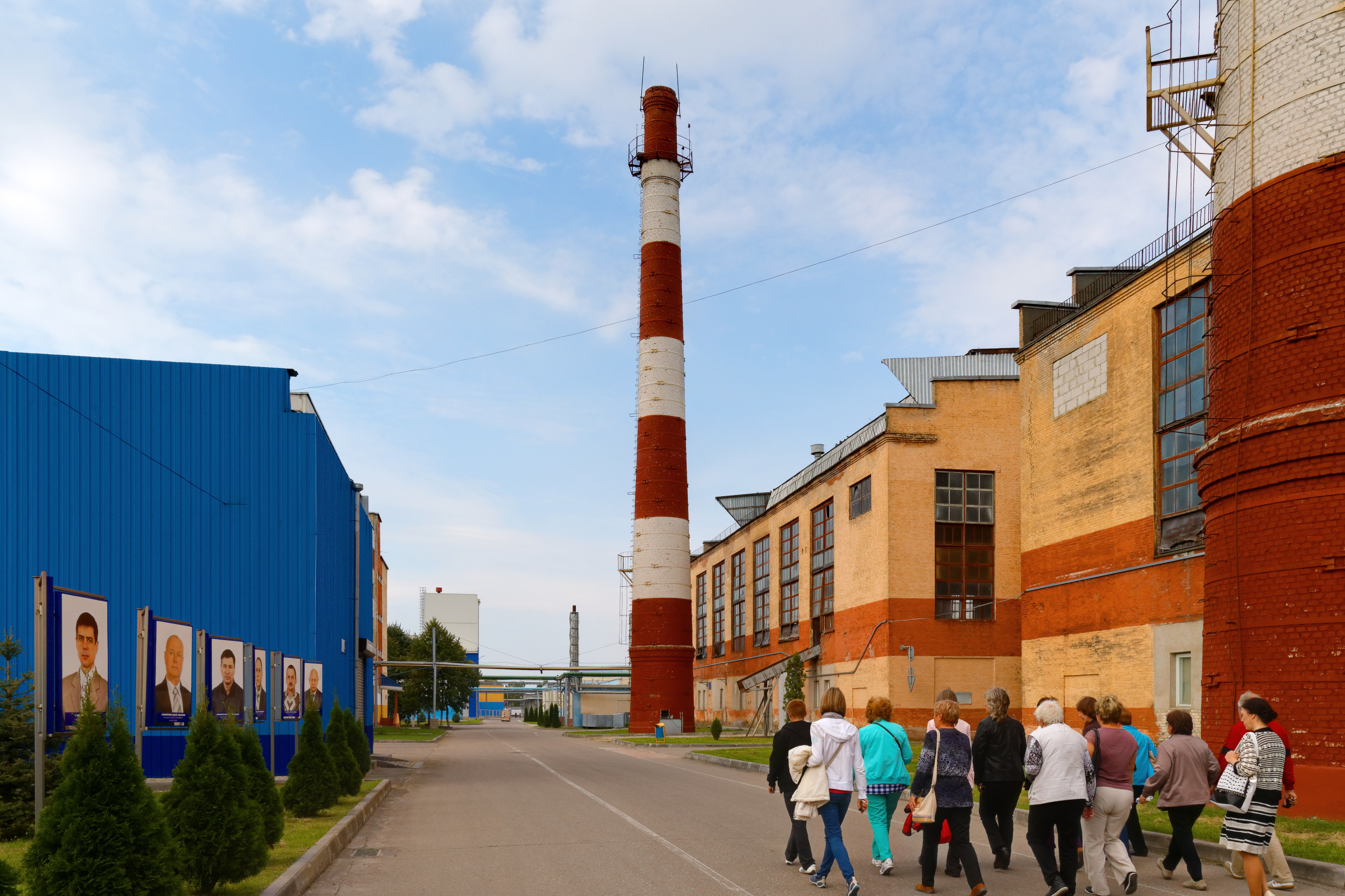 Belarus. Byarozawka. Glassworks “Neman”